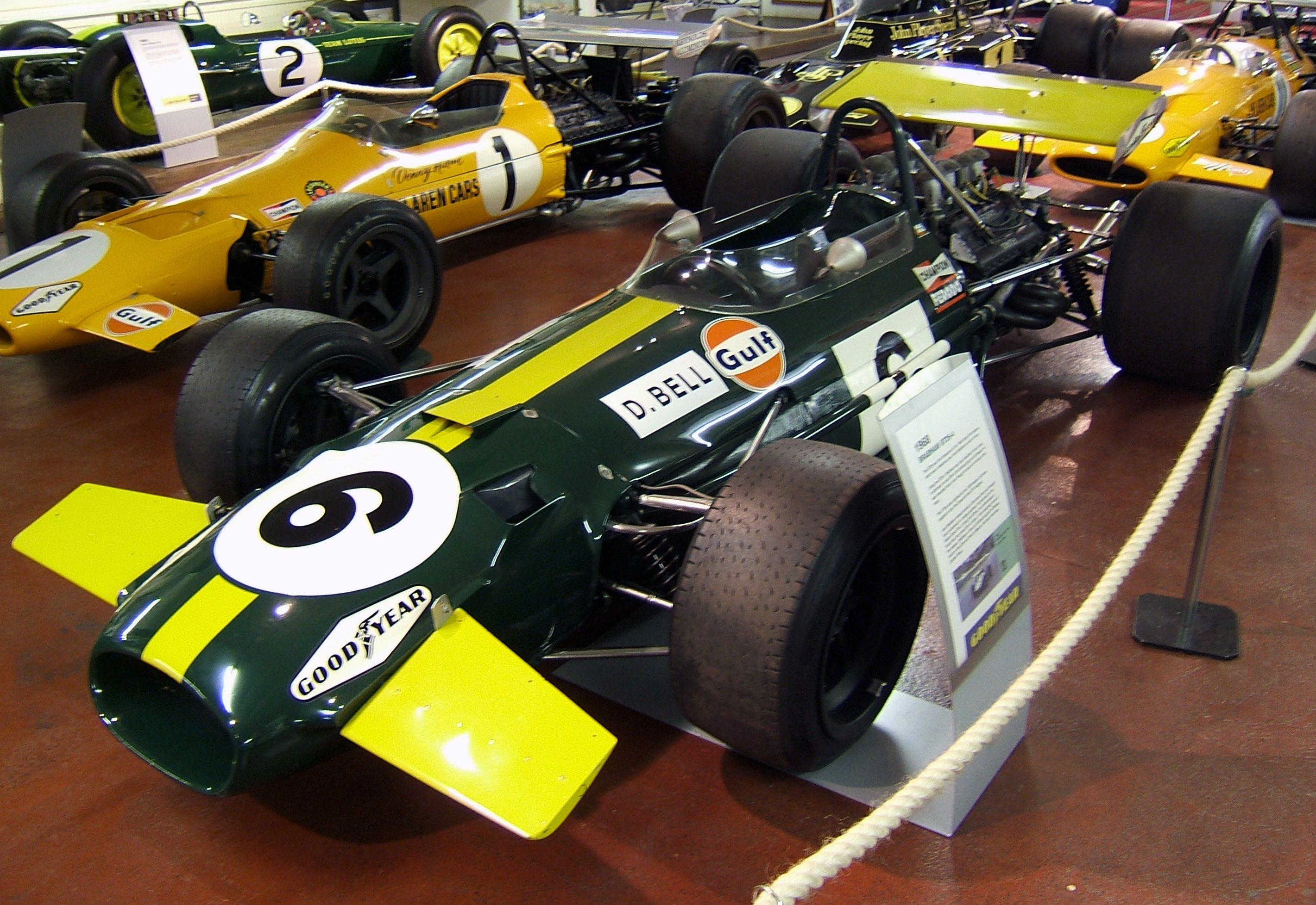 A Brabham BT26 Formula 1 car in 1970 Tasman Series specification, as run by Wheatcroft Racing for Derek Bell. In the Donington Grand Prix Collection museum, Leics., UK.